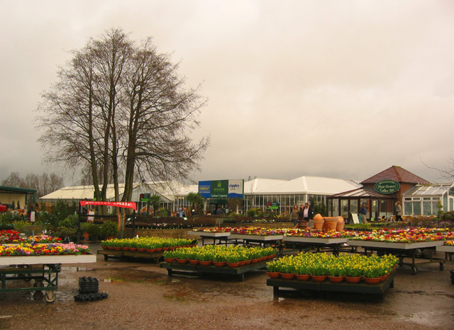 Bridgemere Garden World, south of Bridgemere, near Nantwich, Cheshire